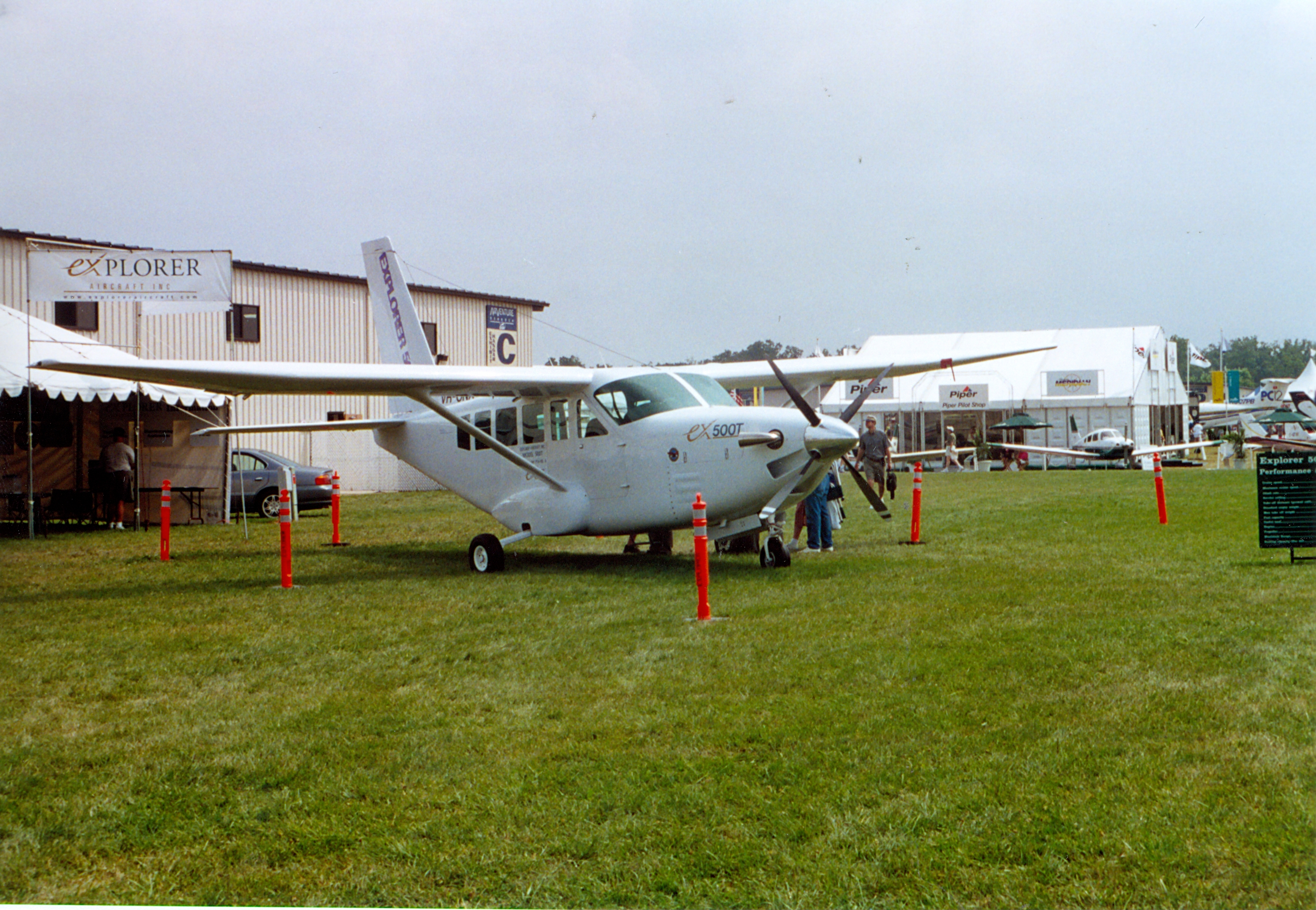 AEA Explorer 500T at Oshkosh 2000